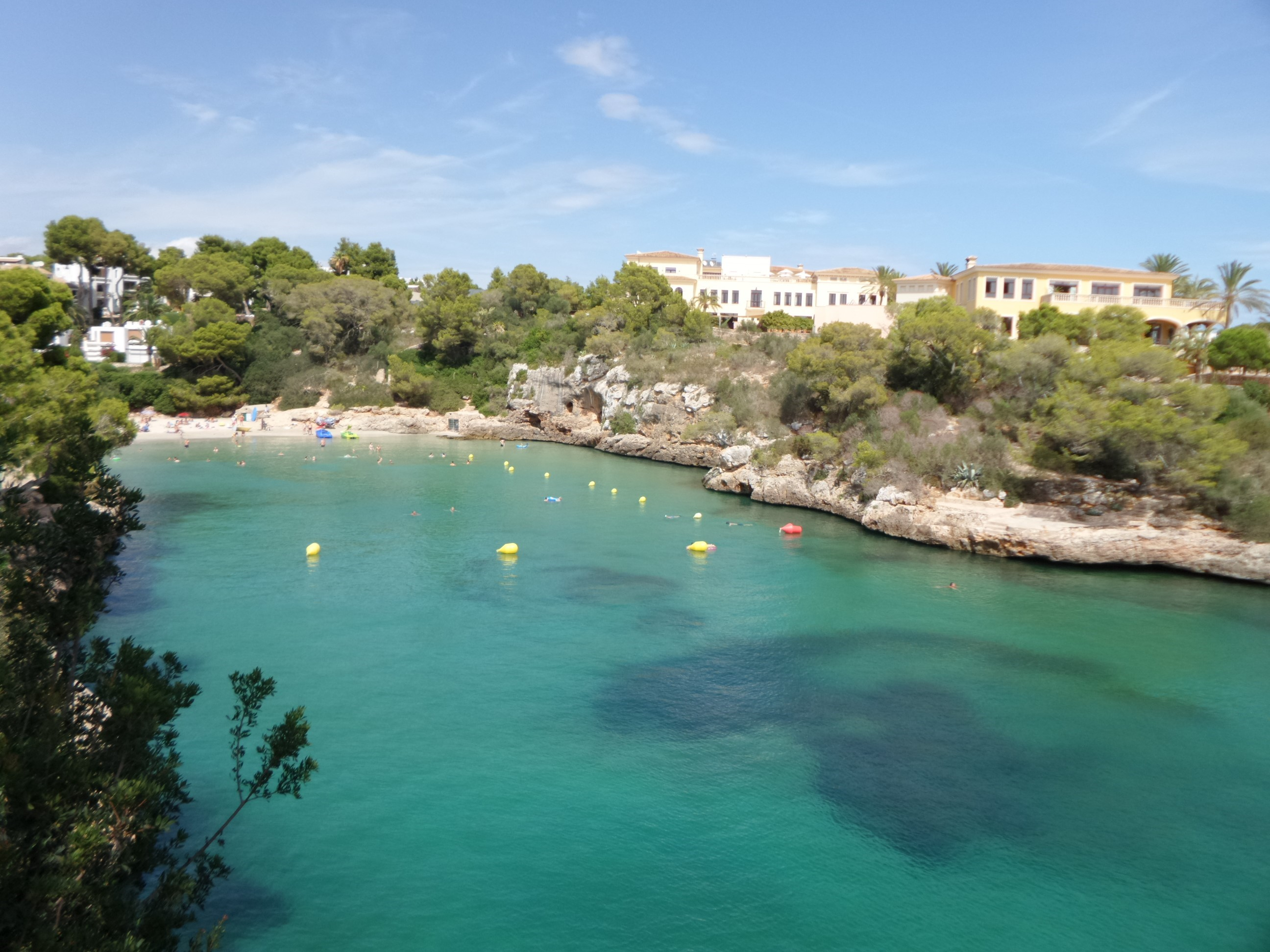 Cala Ferrera (Felanitx), village, bay and beach